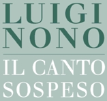 Project Logo of the Nonoprojekt, by IncontriEuropei